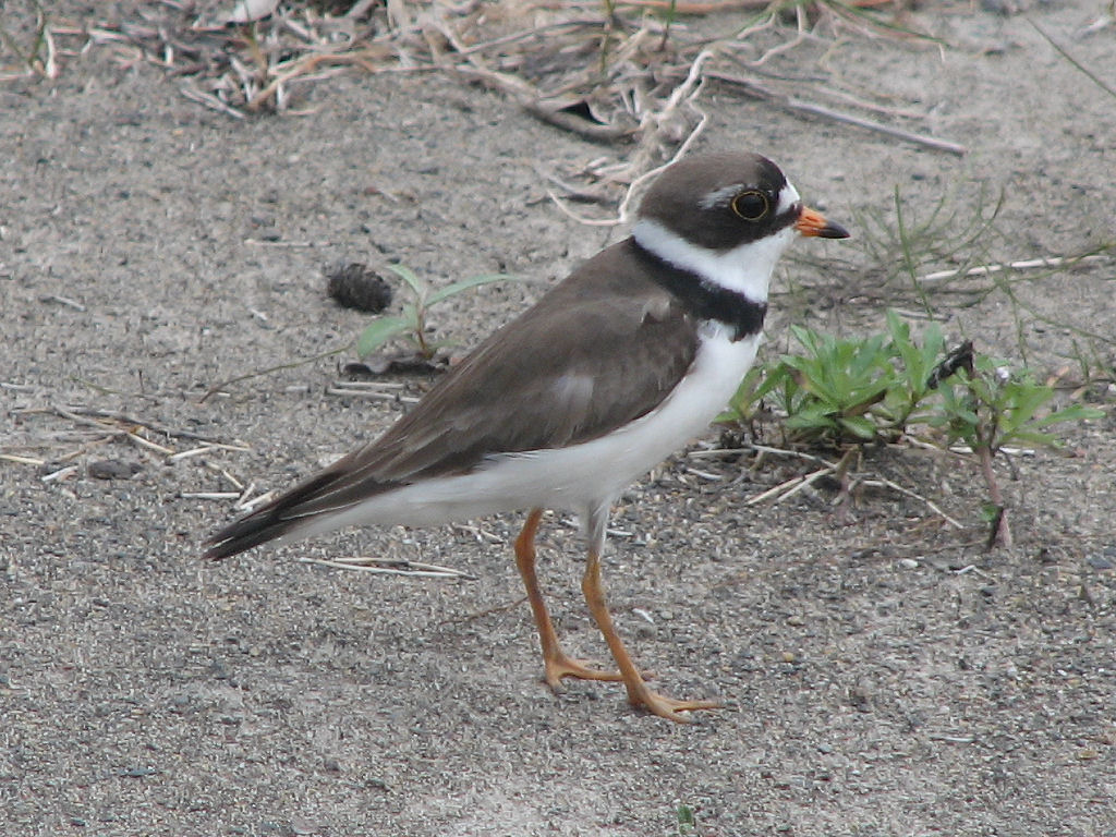 Semipalmated Plover (Charadrius semipalmatus) in breeding plumage, Coppermine River, Nunavut